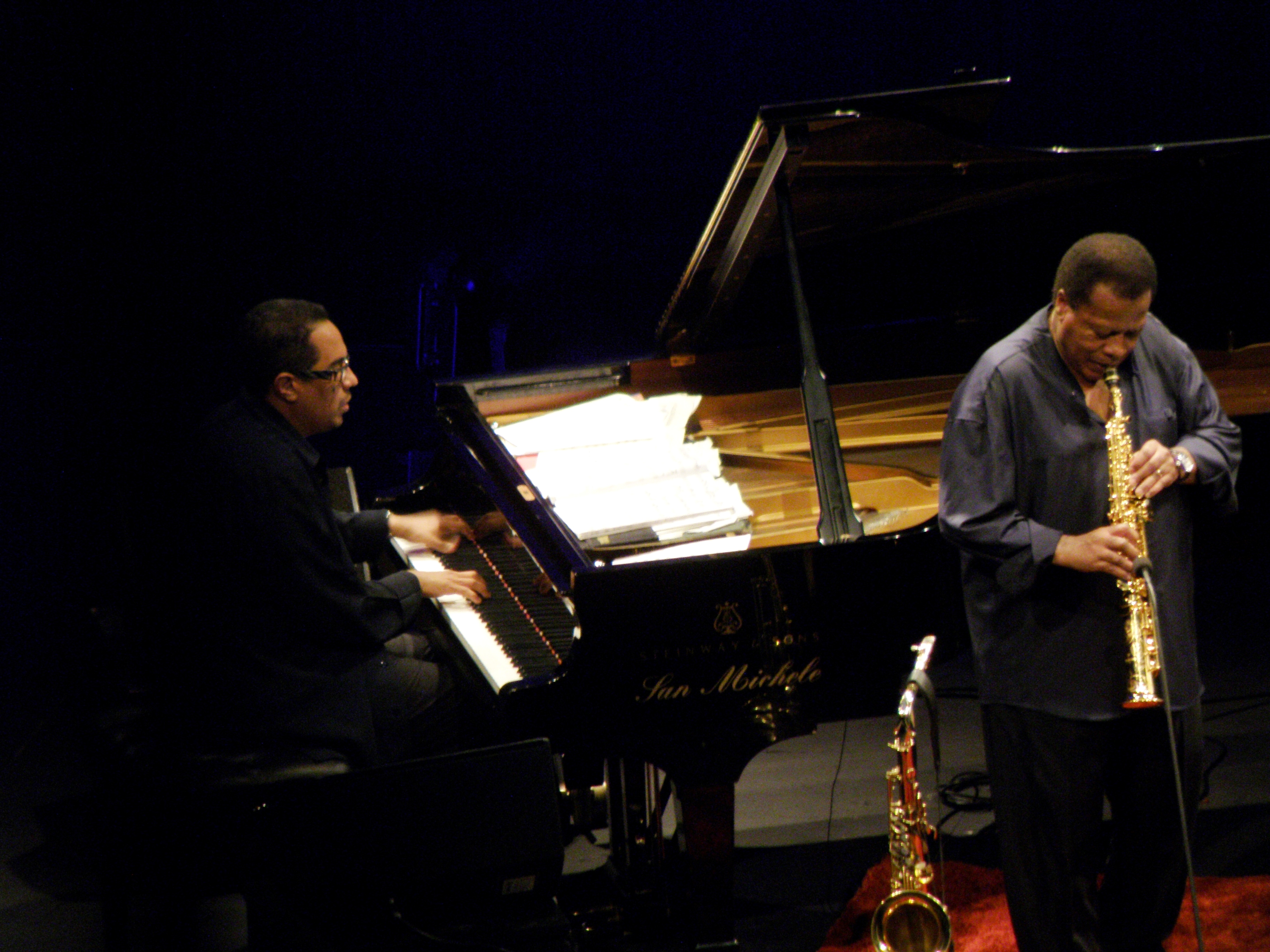 Danilo Pérez (piano) and Wayne Shorter (saxophone), in concert with the Wayne Shorter quartet at the Teatro degli Arcimboldi, Milano, on the 28th June 2010.